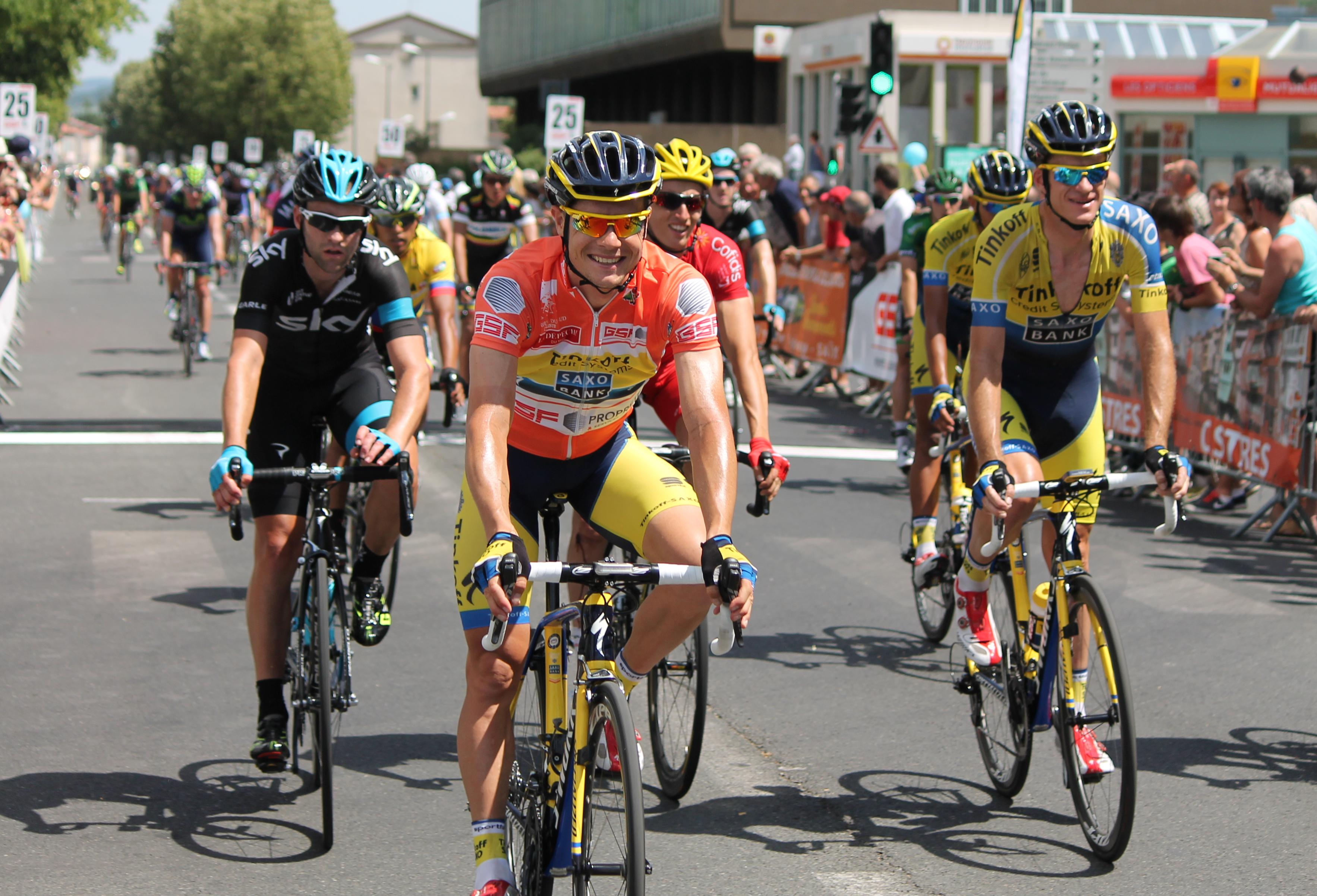 Nicolas Roche crossing the finish line in Castres. He has won the 2014 Route du Sud.